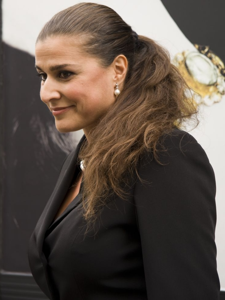 Cecilia Bartoli during her press event at the Center for Fine Arts Brussels (BOZAR).